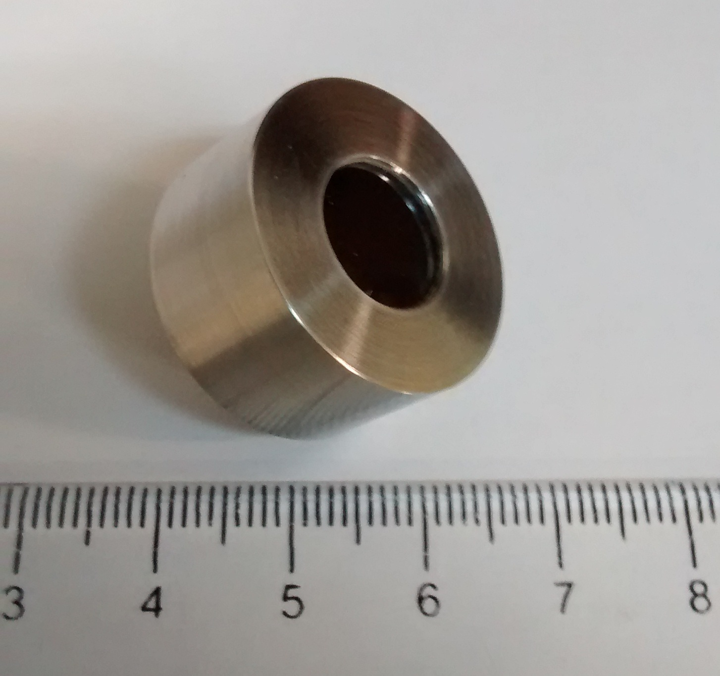 Semiconductor radiation detector ion-implanted type